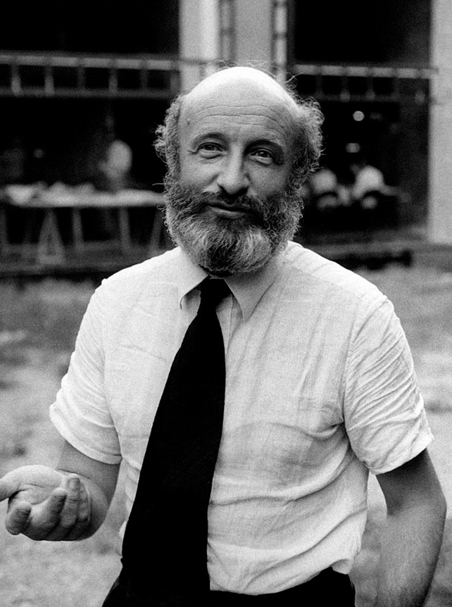 Italian architect and designer Vittorio Gregotti taking part as the director in the Venice Biennale of Architecture which has just been founded. Venice, 1975